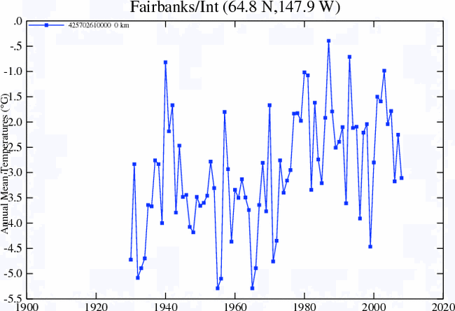 Climate graph of 1929 2009 air average temperaturas of Fairbanks, Alaska